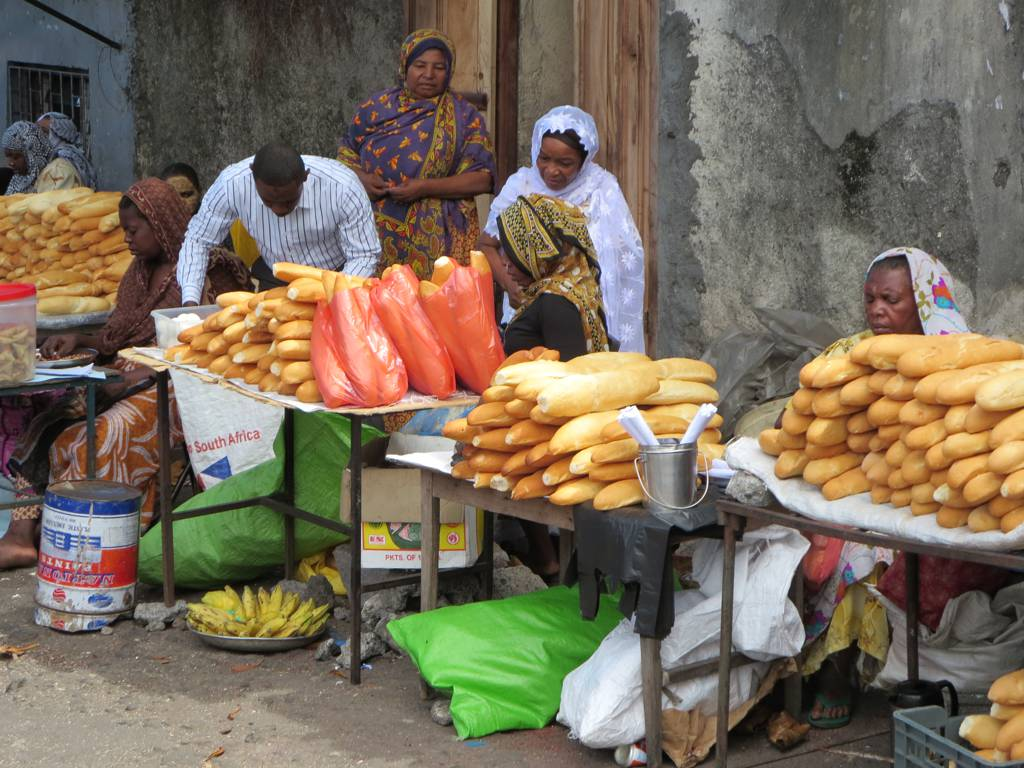 French baguettes are readily available on Place Cobadjou in Moroni, Grande Comore, Union of the Comoros.